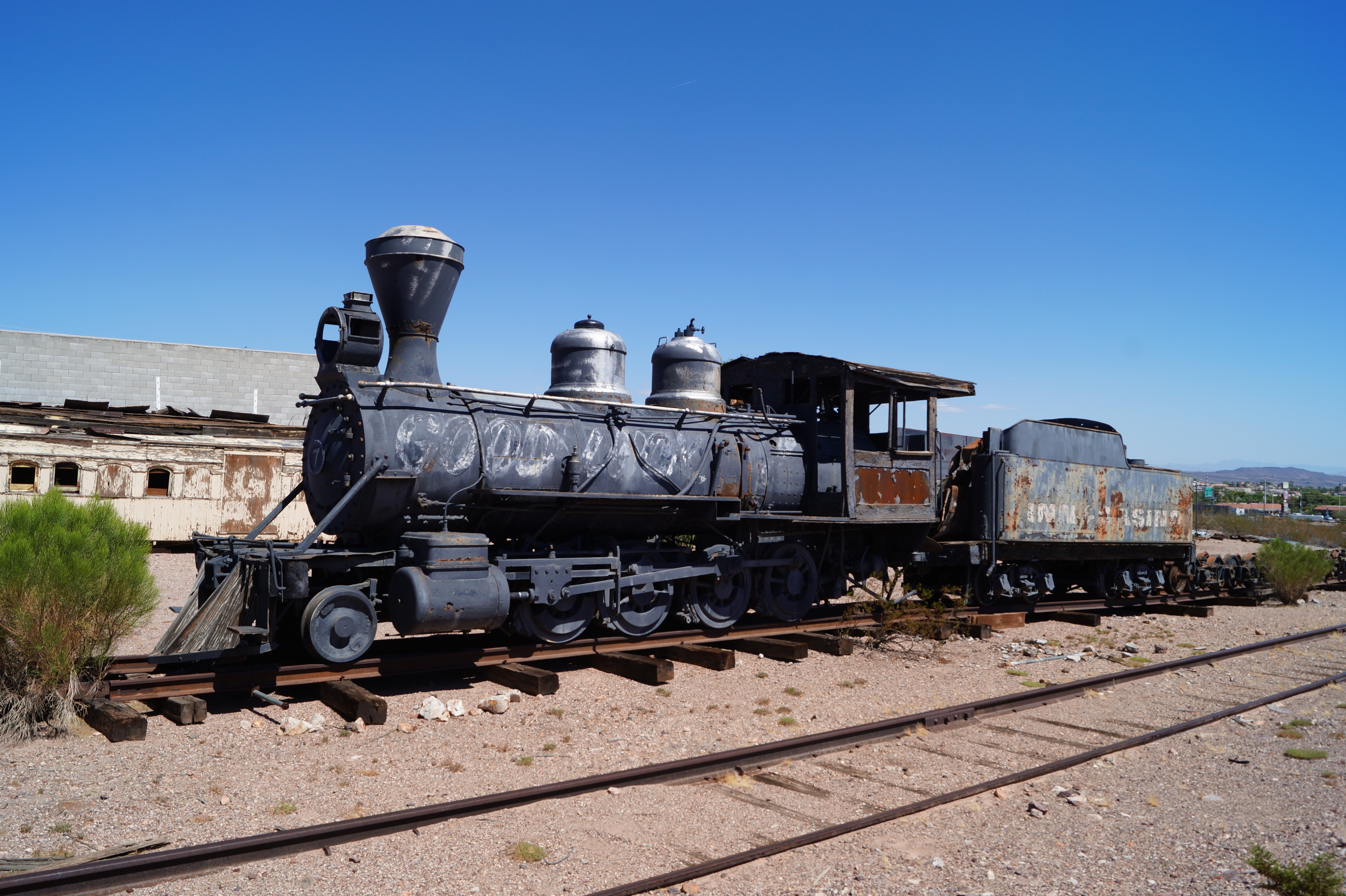 The Nevada State Railroad Museum which is an agency of the Nevada Department of Cultural Affairs. It is located at Yucca Street on the tracks of the historic Union Pacific Railroad branch Henderson-Boulder City near the former Boulder City Railroad Yards where the Hoover Dam construction equipment was unloaded in the 1930s.